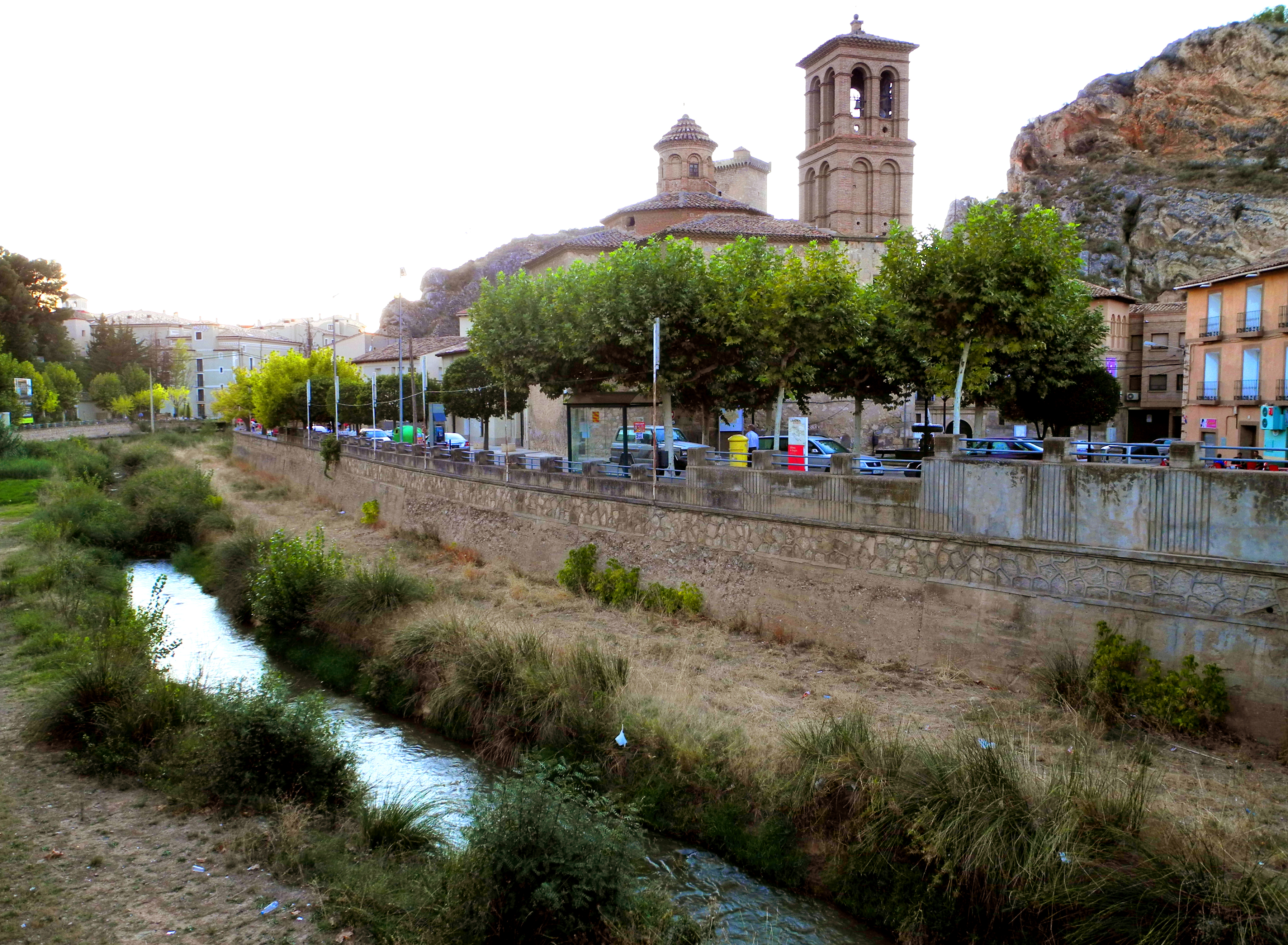 Town center, with the Jalón River in the foreground. Alhama de Aragón, Zaragoza, Aragon, Spain